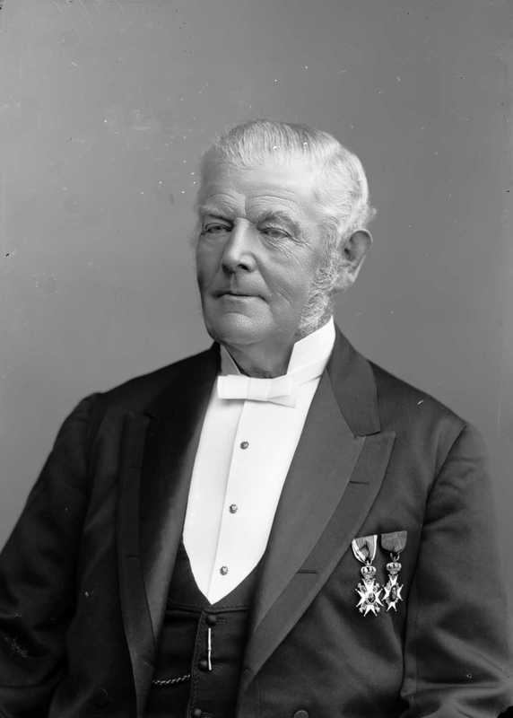 Norwegian shipowner and ice businessman Søren Angell Parr (1815–1903) from Drøbak